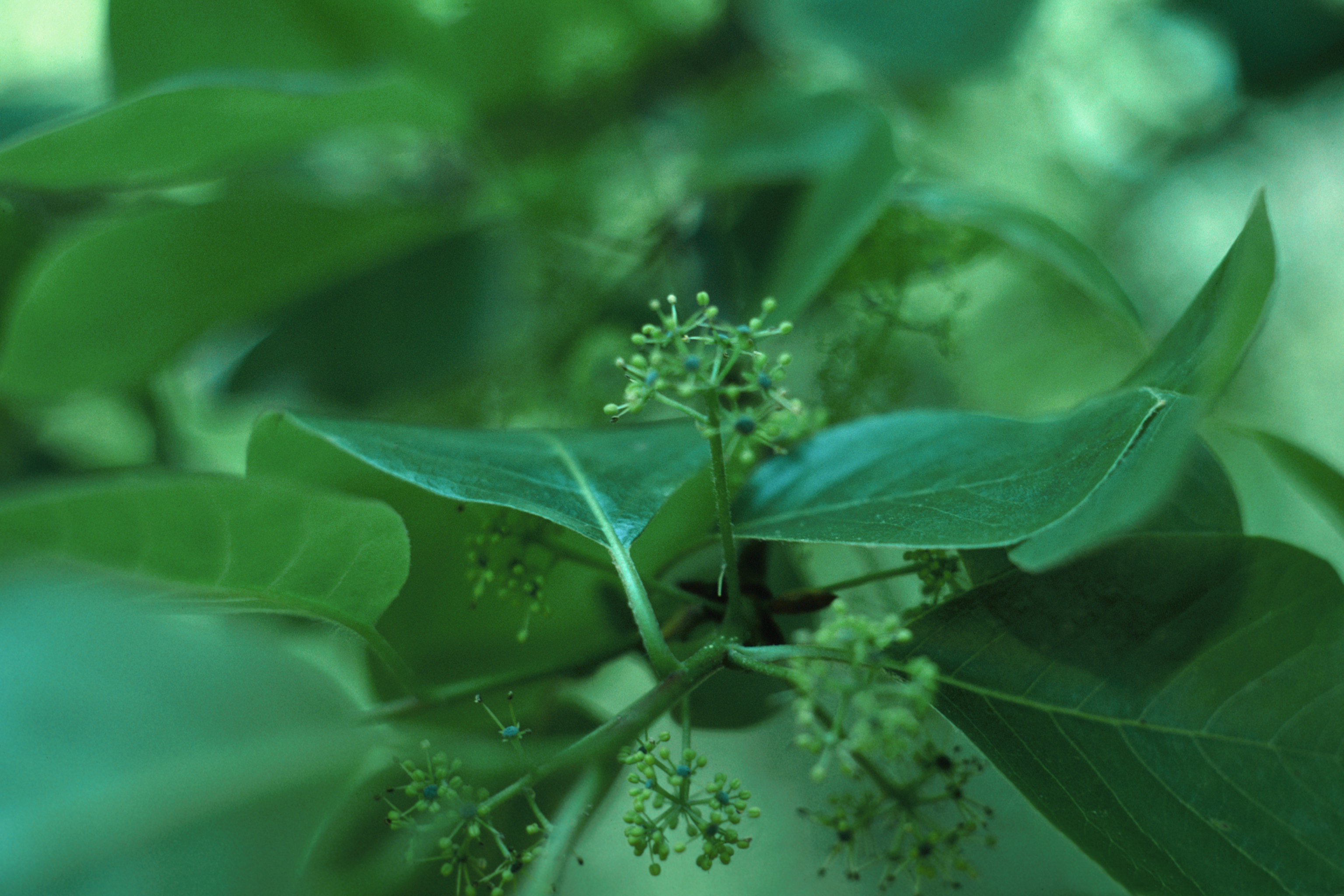 Nyssa sylvatica foliage and flowers. Alabama.